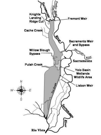 This is a map of the Yolo Bypass that includes Fremont Weir, Toe Drain, Sacramento River, and other important features of the bypass.